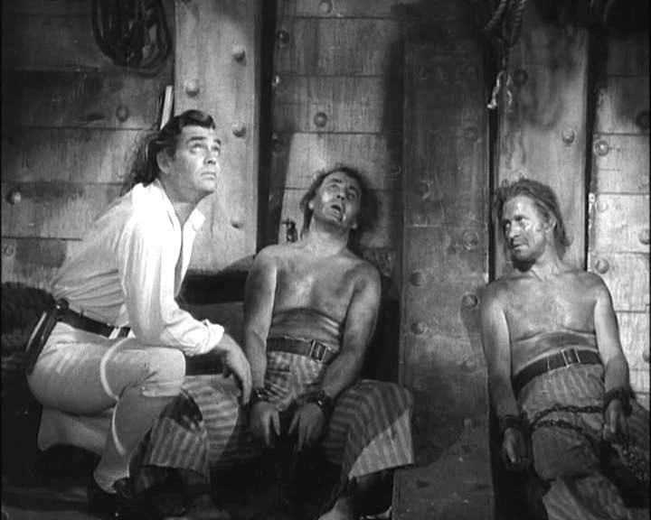 Clark Gable as Fletcher Christian in a screenshot from the trailer for the film Mutiny on the Bounty.